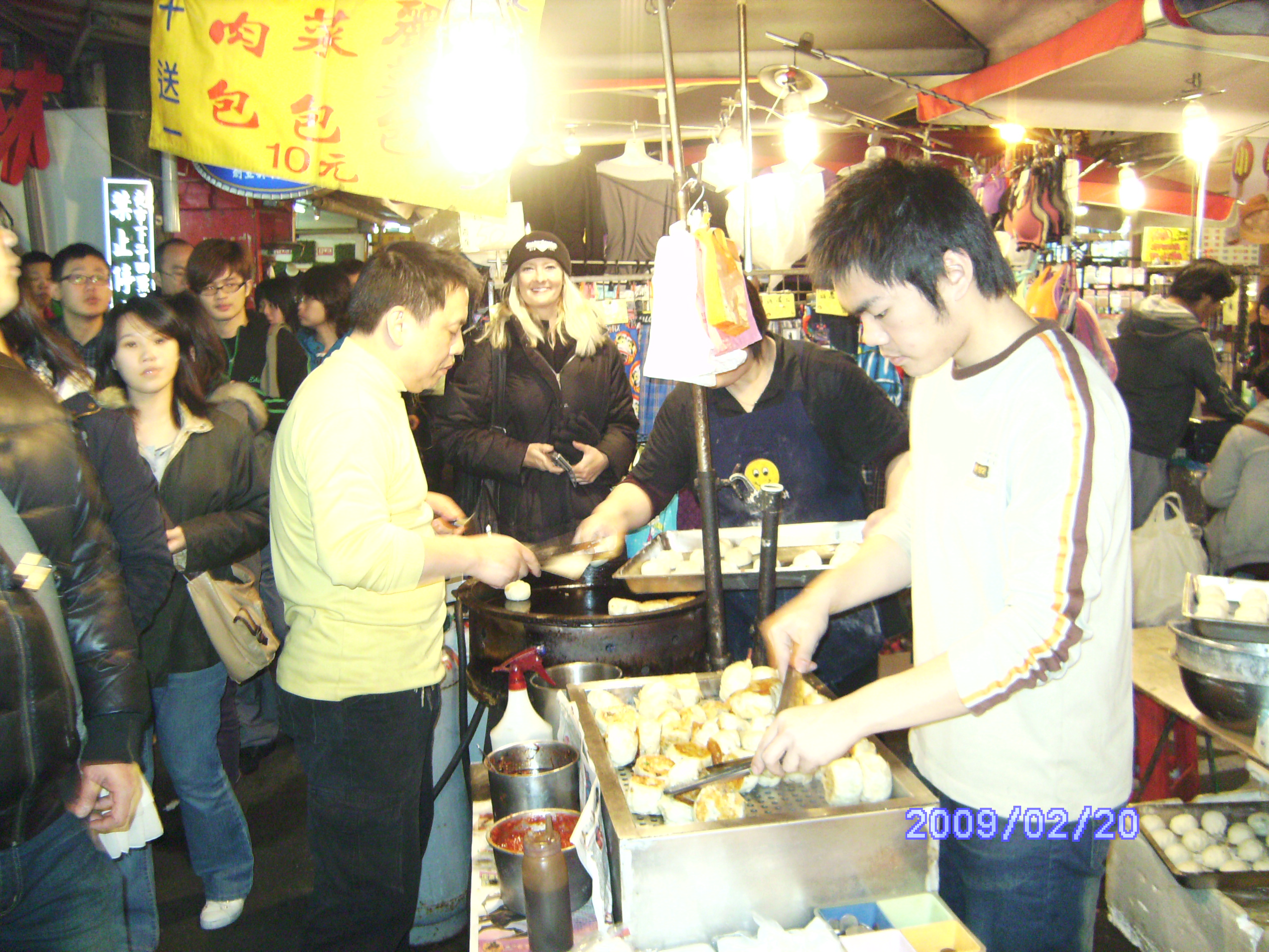 饒河街觀光夜市Raohe St. Night Market2009/3